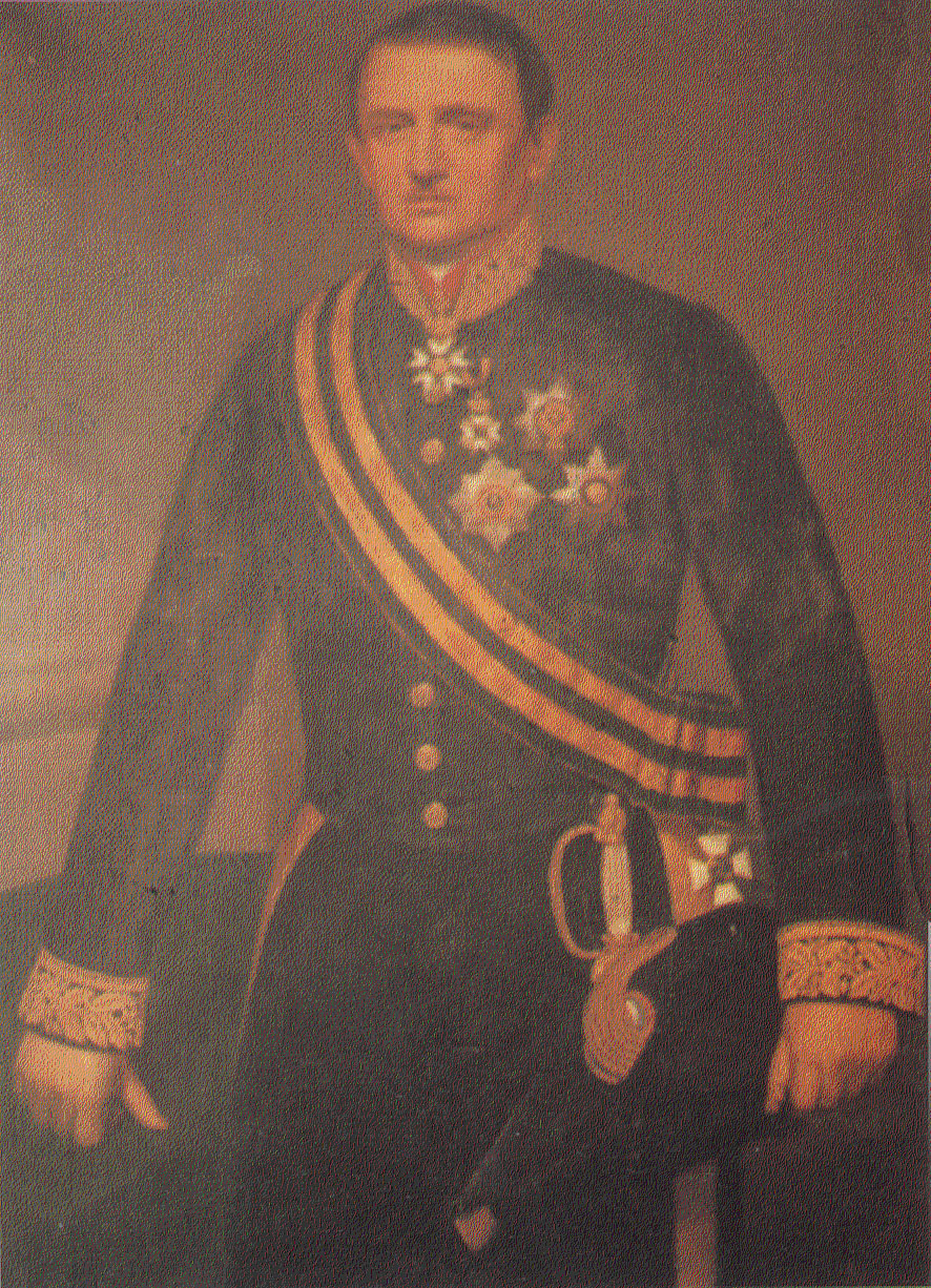 Marie Victor baron de Tornaco (Kasteel Sterpenich, Aarlen, 7 juli 1805 - Kasteel Voort, Belgisch Limburg, 26 september 1875)